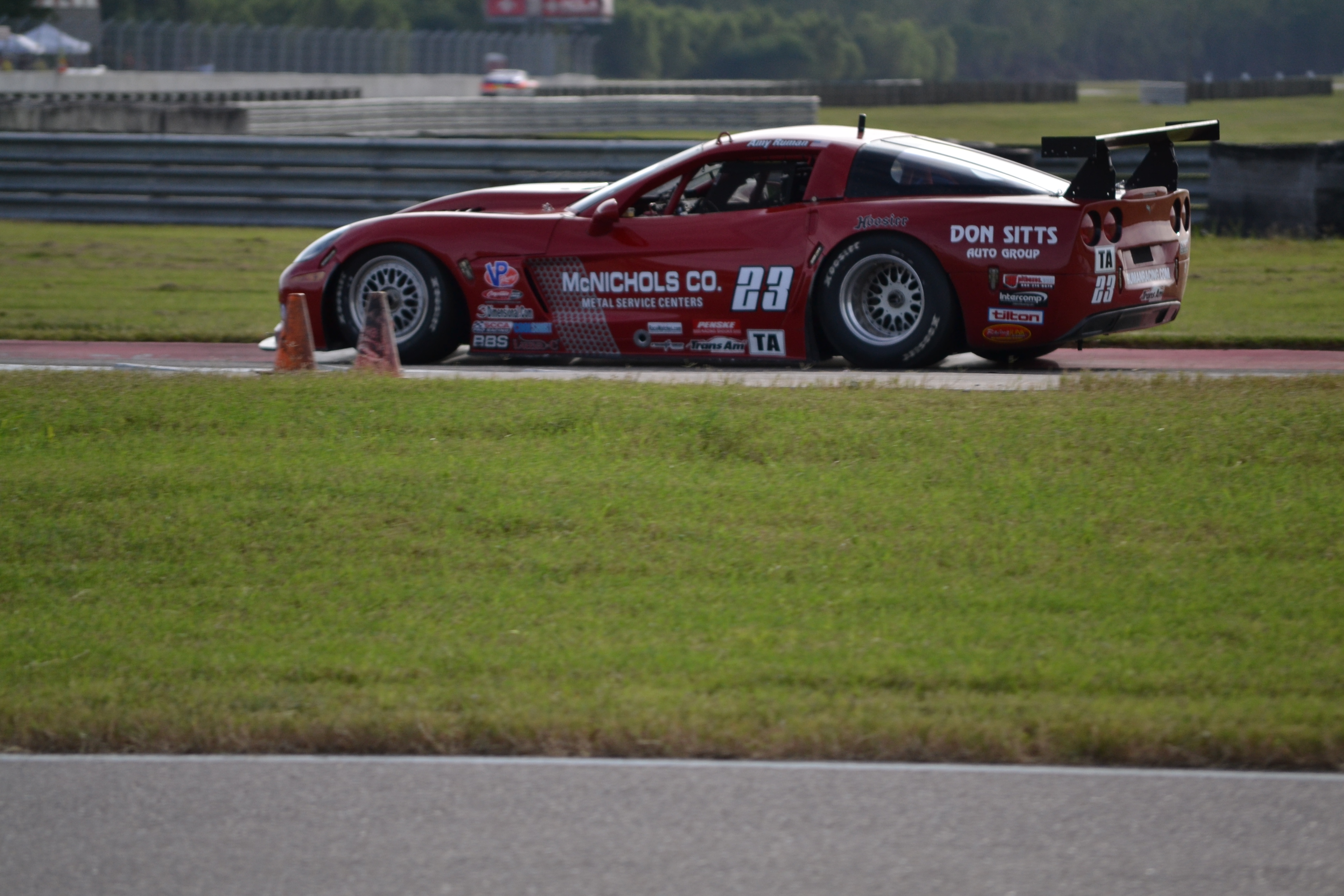 Amy Ruman in her McNichols Engineering Corvette at NOLA Trans-Am race, October 2015.